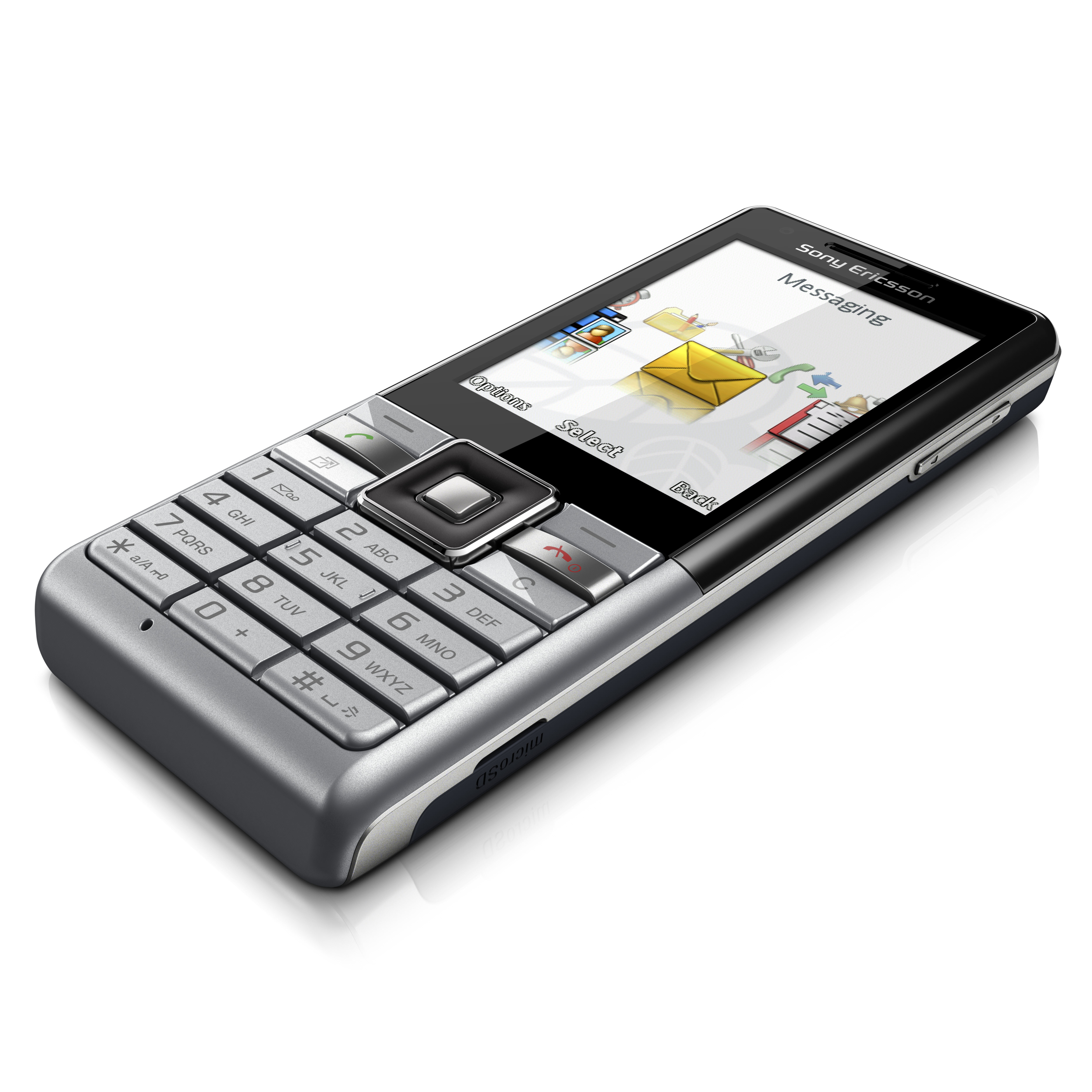 Sony Ericsson Naite silver